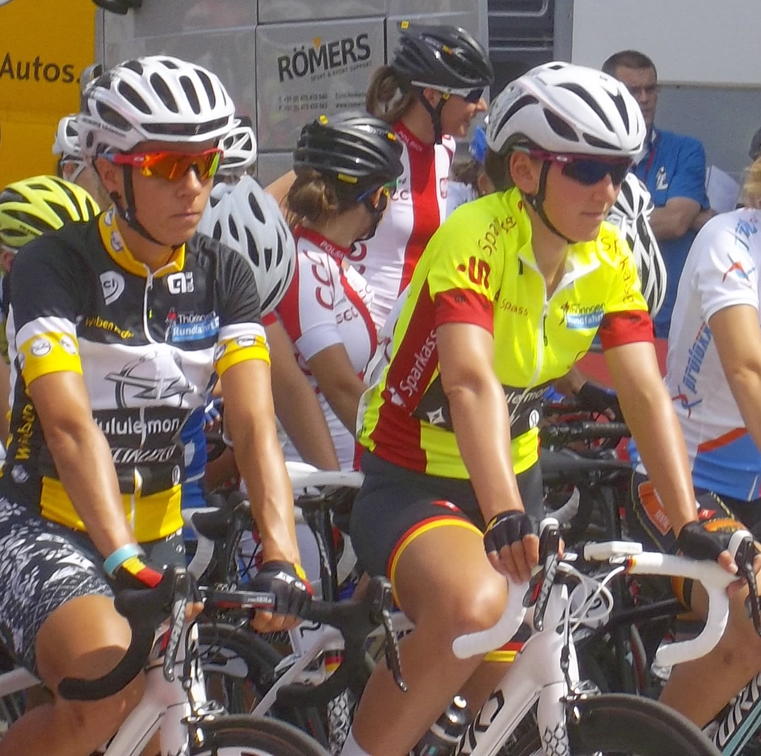 Trixi Worrack and Lisa Brennauer at Thuringen Rundfahrt 2014, start of stage 1